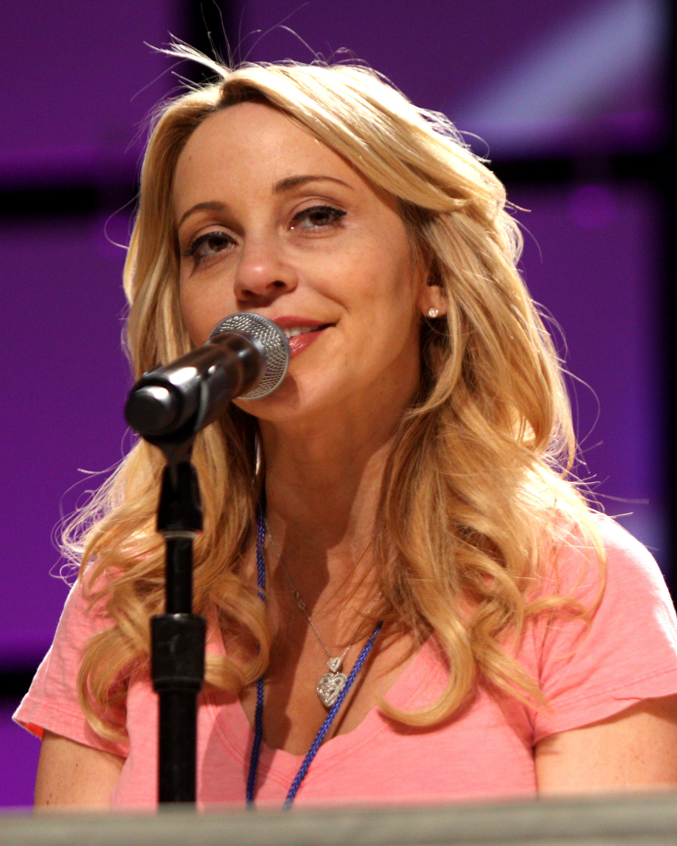 Tara Strong at the 2013 Phoenix Comicon in Phoenix, Arizona, USA.